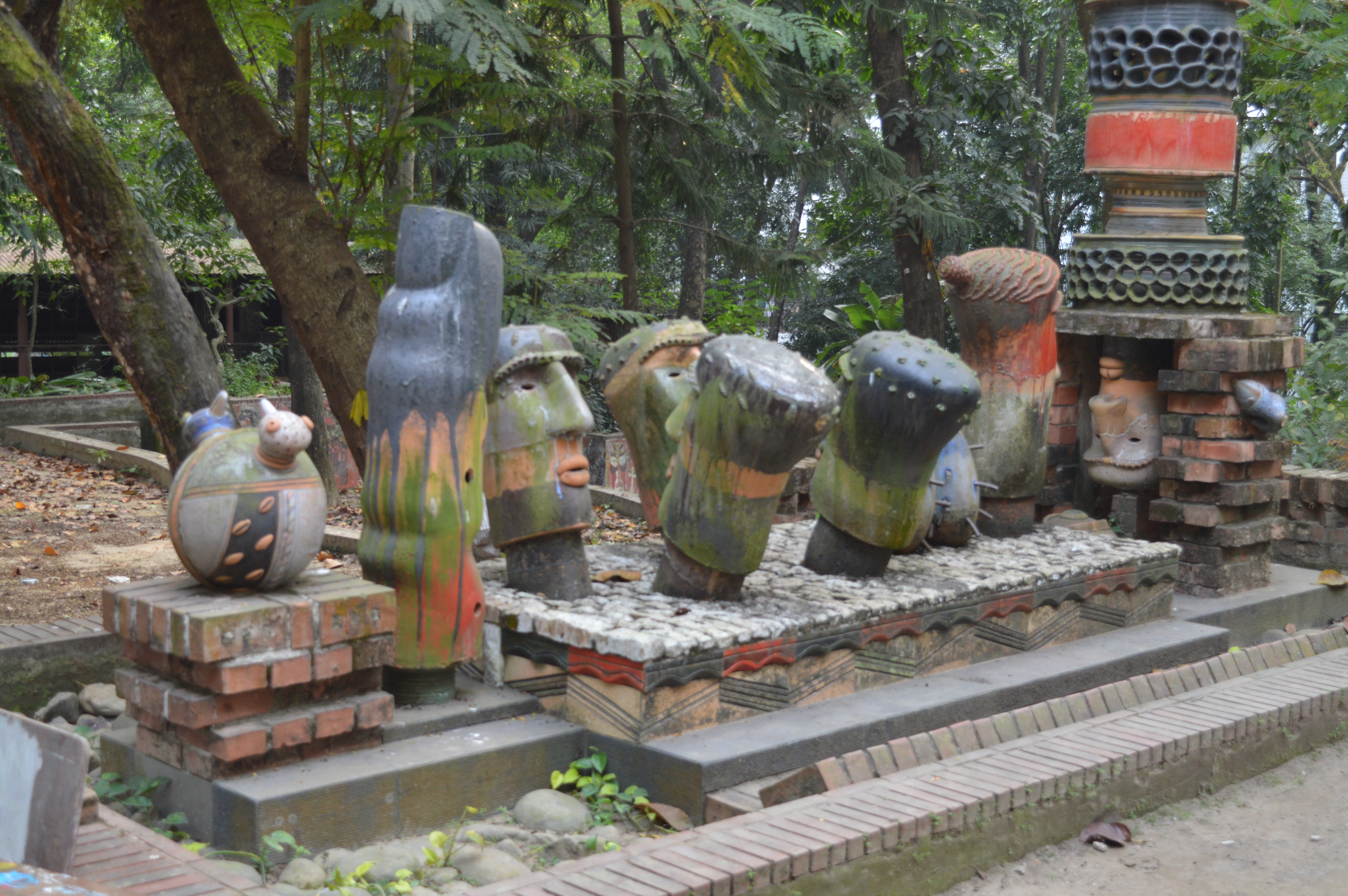 Sculpture from Institute of Fine Arts at University of Chittagong